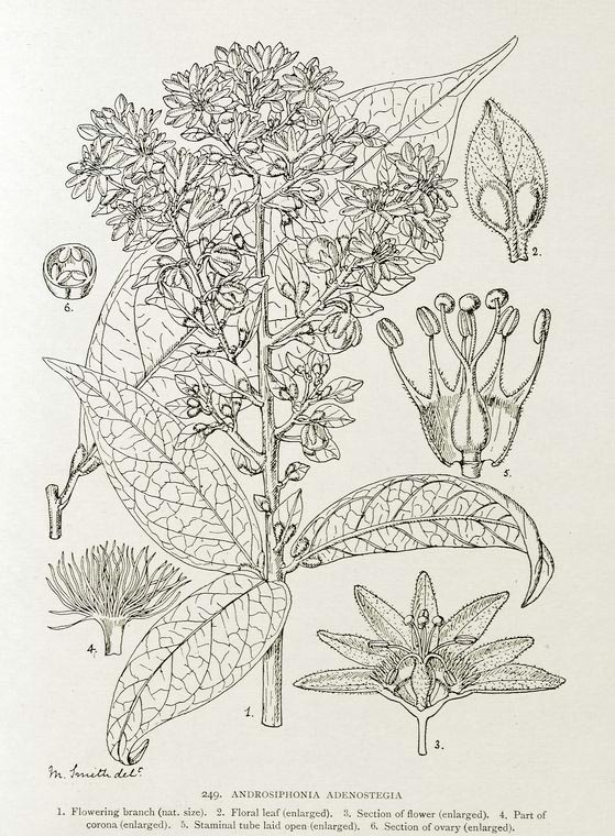 Androsiphonia adenostegia. 1. Flowering branch (nat. size). ; 2. Floral leaf (enlarged). ; 3. Section of flower (enlarged). ; 4. Part of corona (enlarged). ; 5. Staminal tube laid open (enlarged). ; 6. Section of ovary (enlarged)